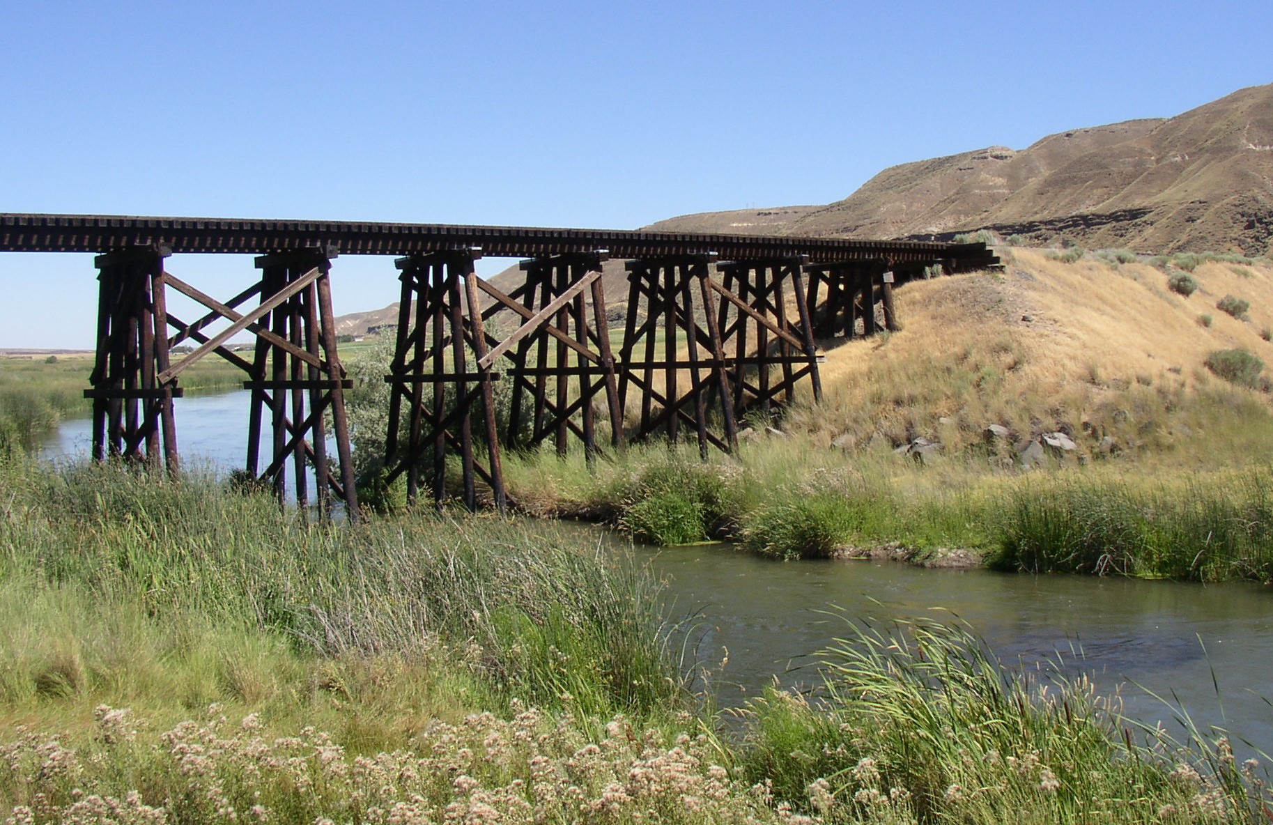 Lower Crab Creek 8 miles above the confluence with the Columbia River looking east. Saddle Mountains to the right. Photo taken by uploader. All rights released. Williamborg 05:42, 23 November 2006 (UTC)